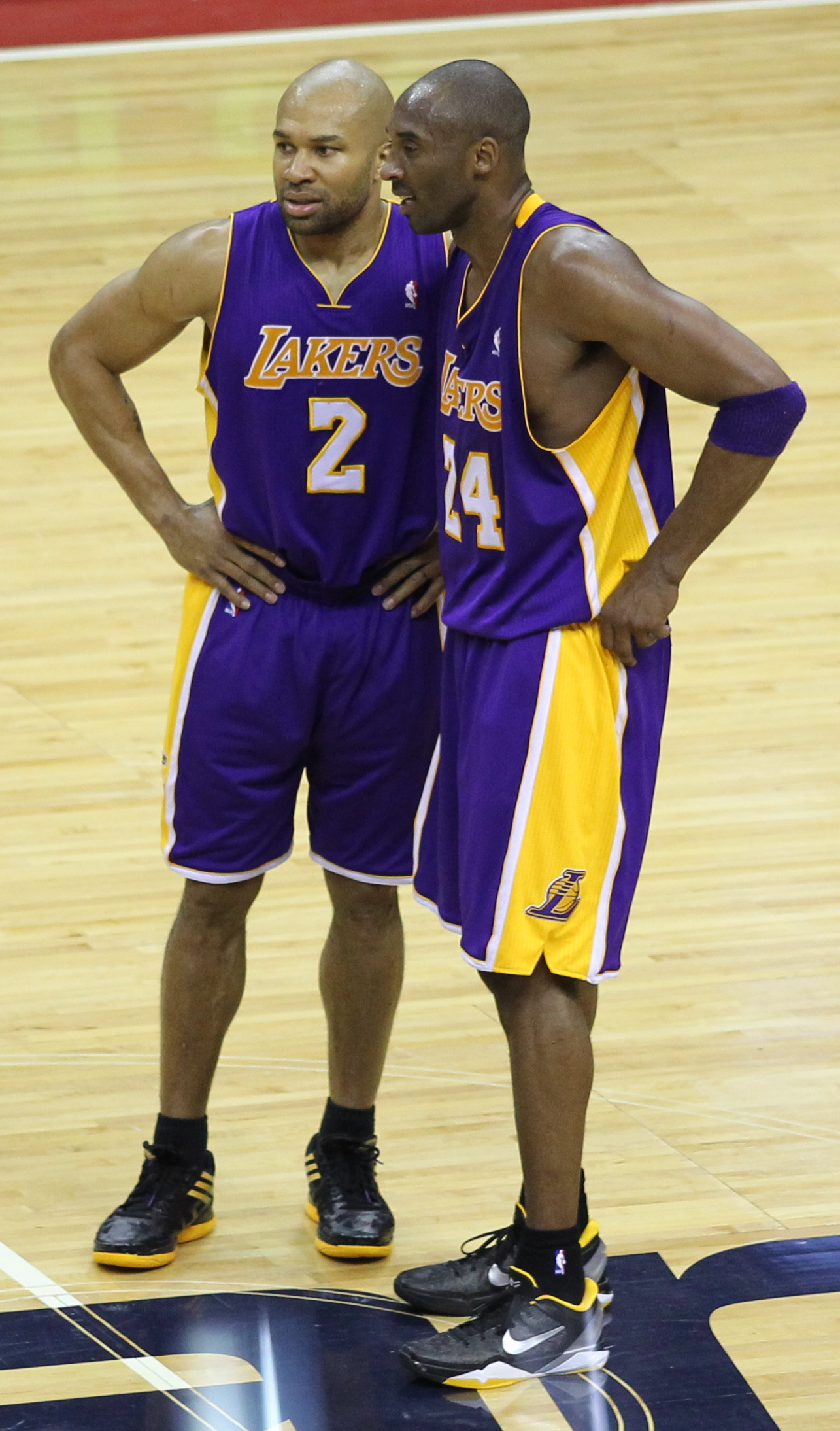 Derek Fisher and Kobe Bryant of the Los Angeles Lakers during a game against the Washington Wizards at the Verizon Center on March 7, 2012 in Washington, DC.